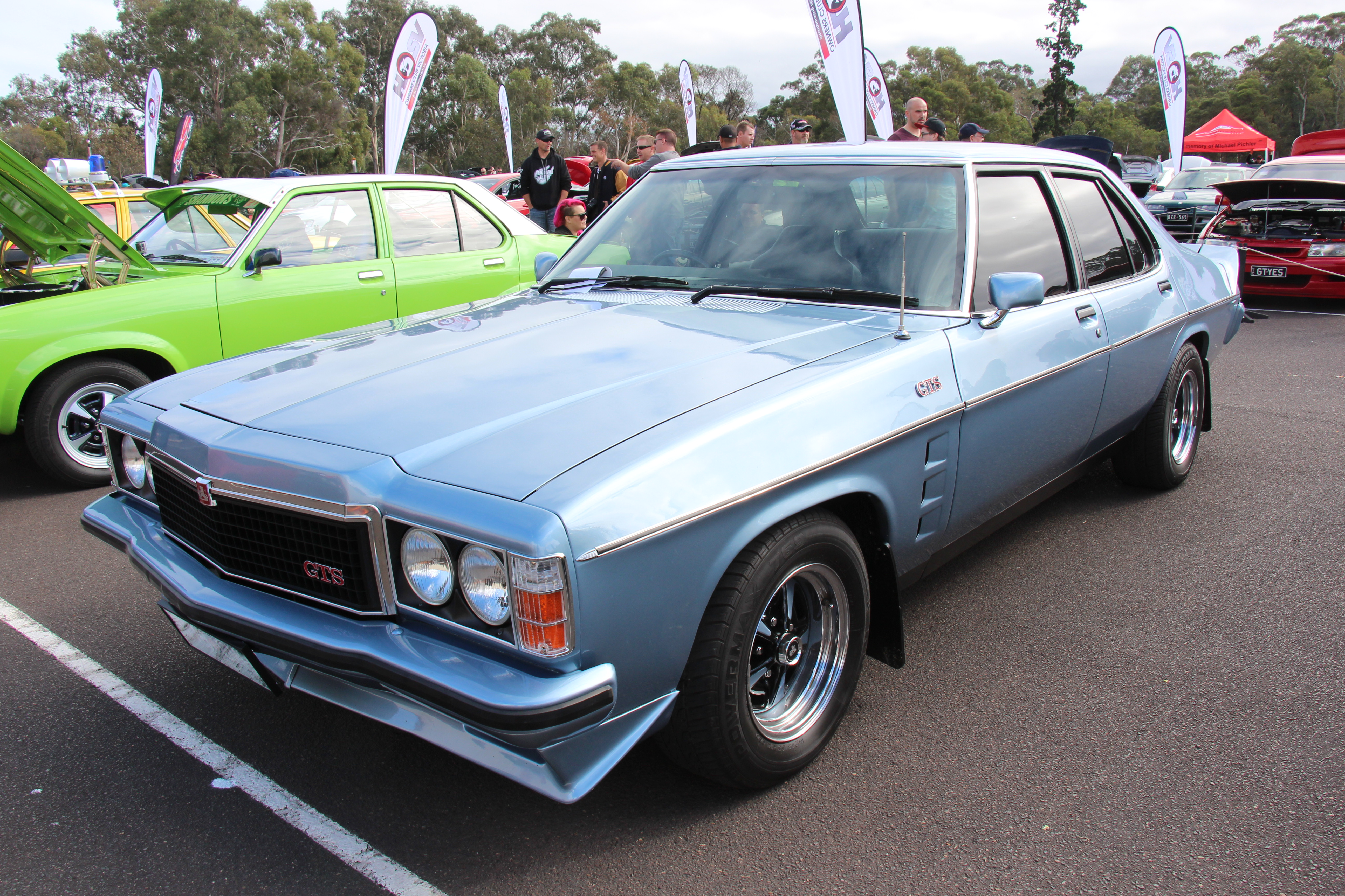 Holden GTS (HZ) Atlantis. Built from October 1977-April 1980. The last facelift on the old HQ body, the HZ, minor cosmetic updates but got the new Radial Tuned Suspension (RTS). The GTS now only available in 4 door Engines; 253 and 308 V8s